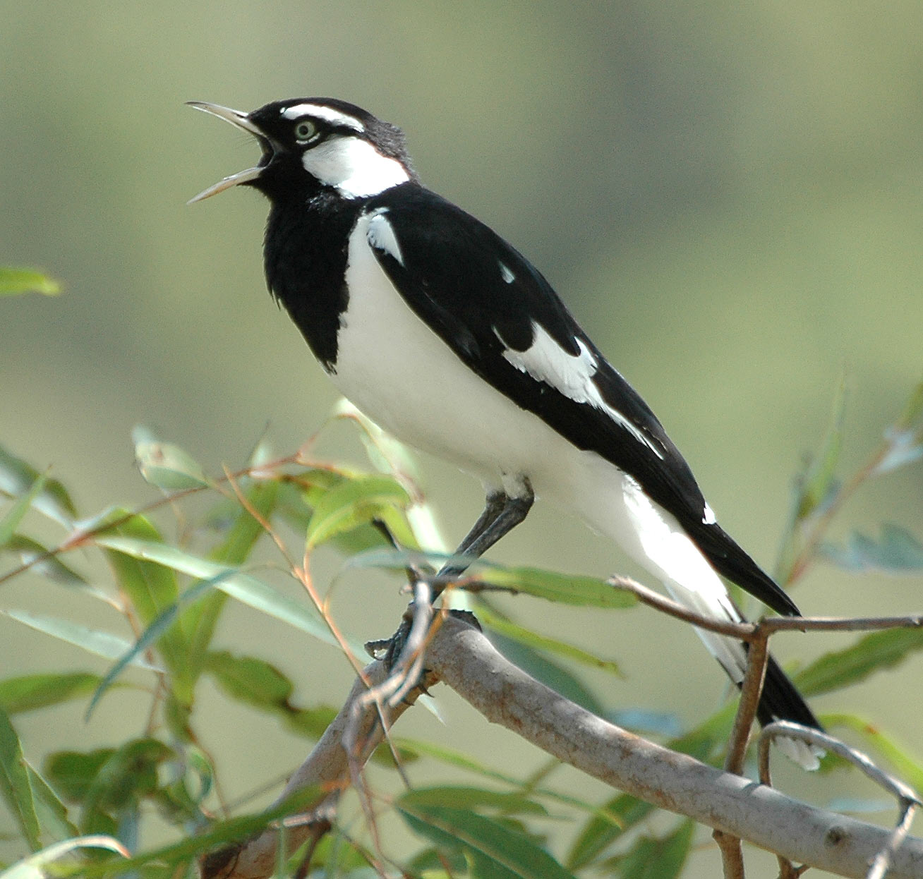 Magpie-lark (Grallina cyanoleuca) male, Kobble Creek, SE Queensland, Australia